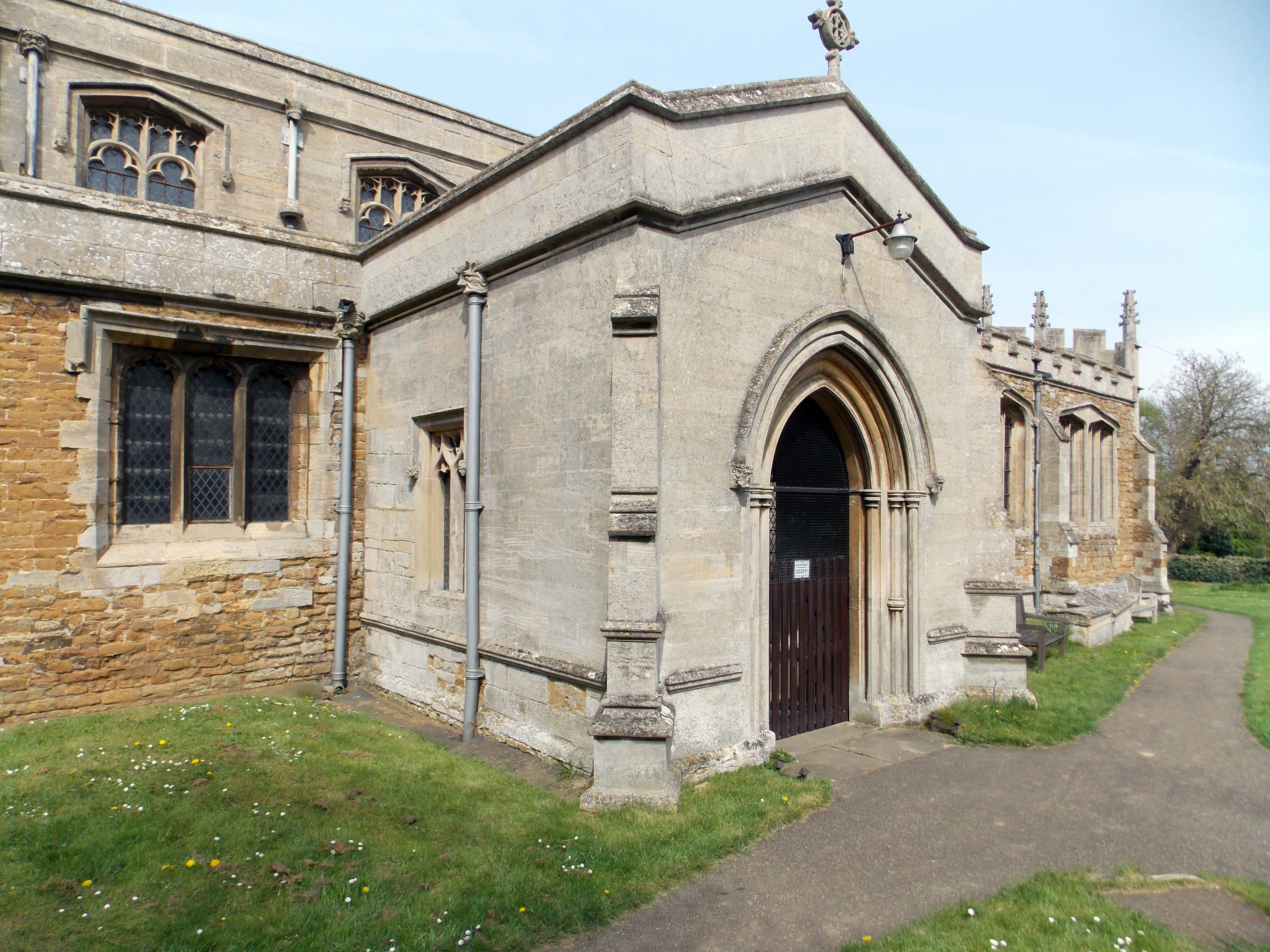 Harlaxton St Mary and St Peter's Church - South porch from the south-west - rebuilt in 1856-58